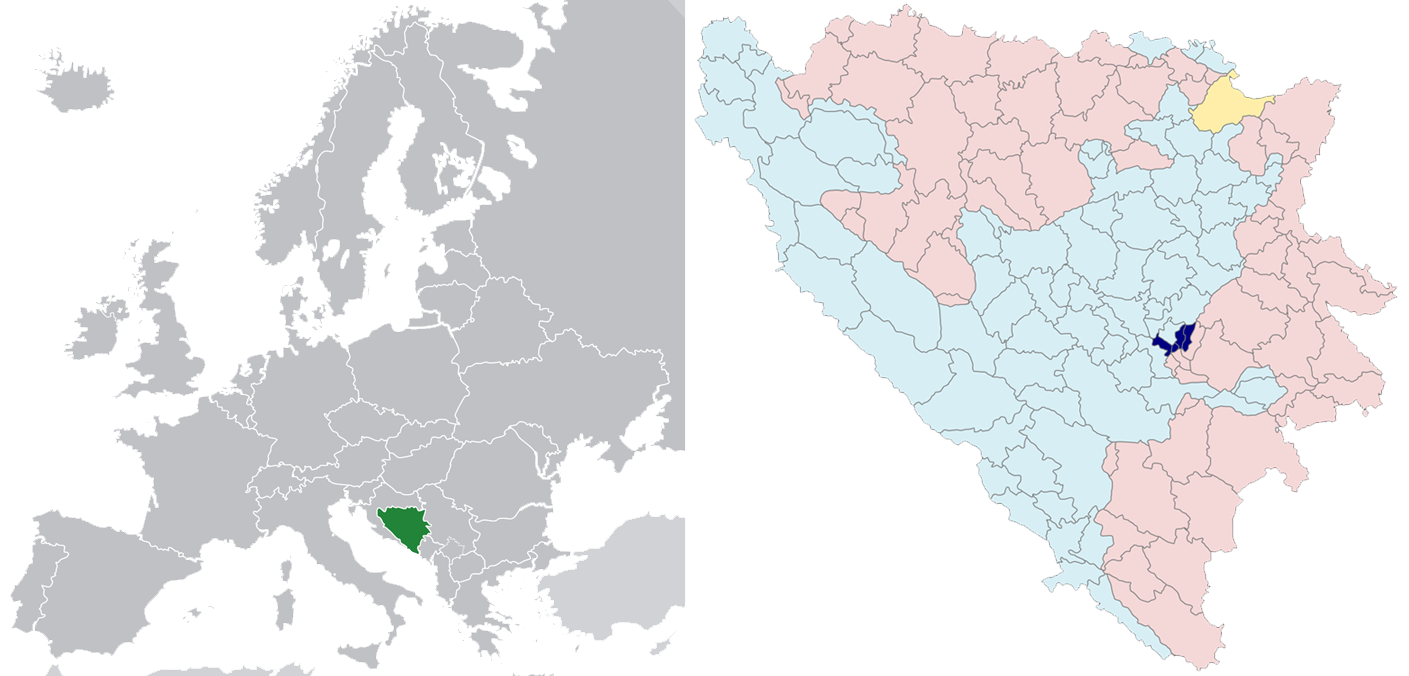 Sarajevo in Bosnia and Herzegovina and Europe.